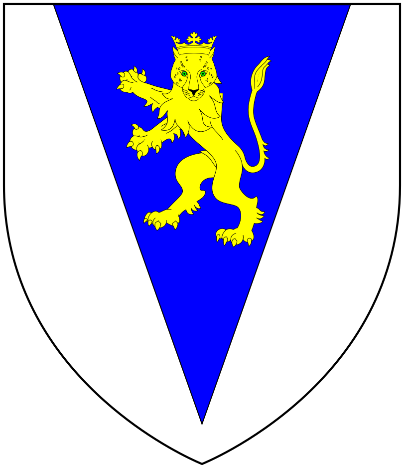 Arms of Luscombe of Luscombe in the parish of Rattery in Devon: Argent, on a pile azure a lion rampant guardant crowned or (Source: Vivian, Lt.Col. J.L., (Ed.) The Visitation of the County of Devon: Comprising the Heralds' Visitations of 1531, 1564 & 1620, Exeter, 1895, p.535).